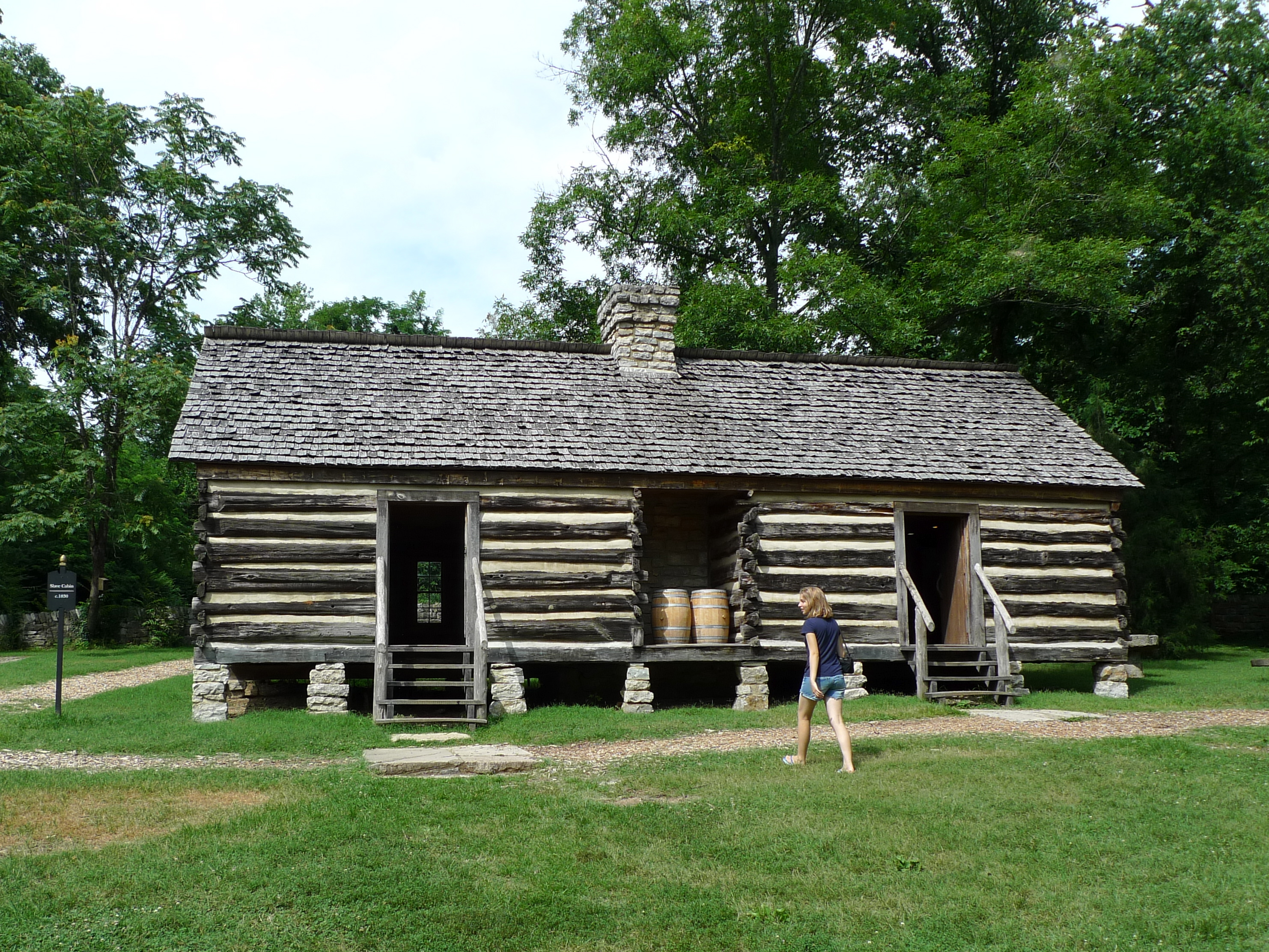 Reconstructed slave quarters at Belle Meade Plantation in Tennessee.